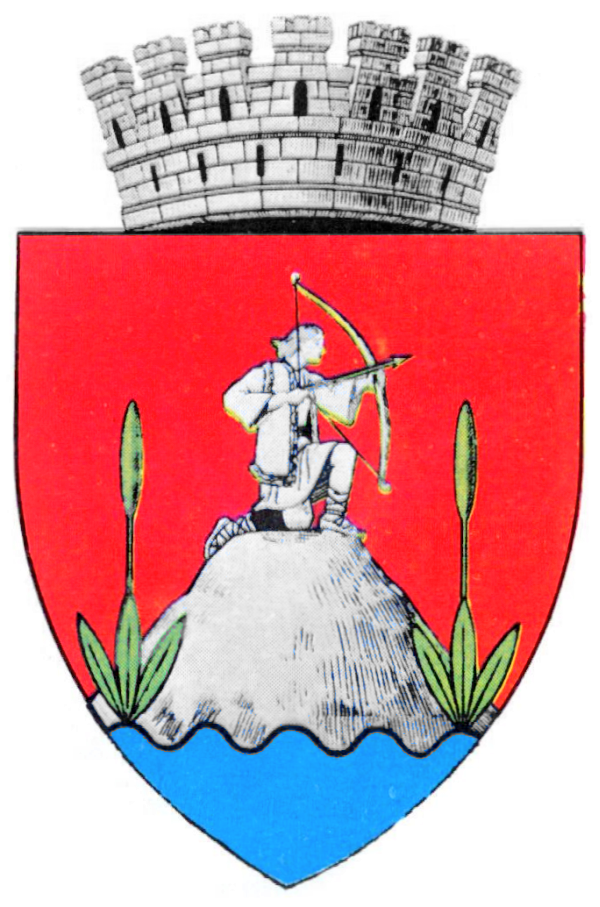 Interwar coat of arms of Bălți, Bălți County, Kingdom of Romania.